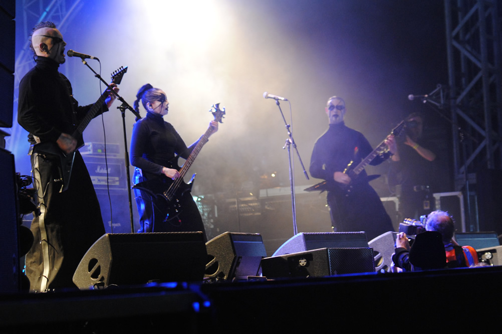 Darkspace performing at Hellfest in 2012. From left to right: members Wintherr, Zorgh and Zhaaral.